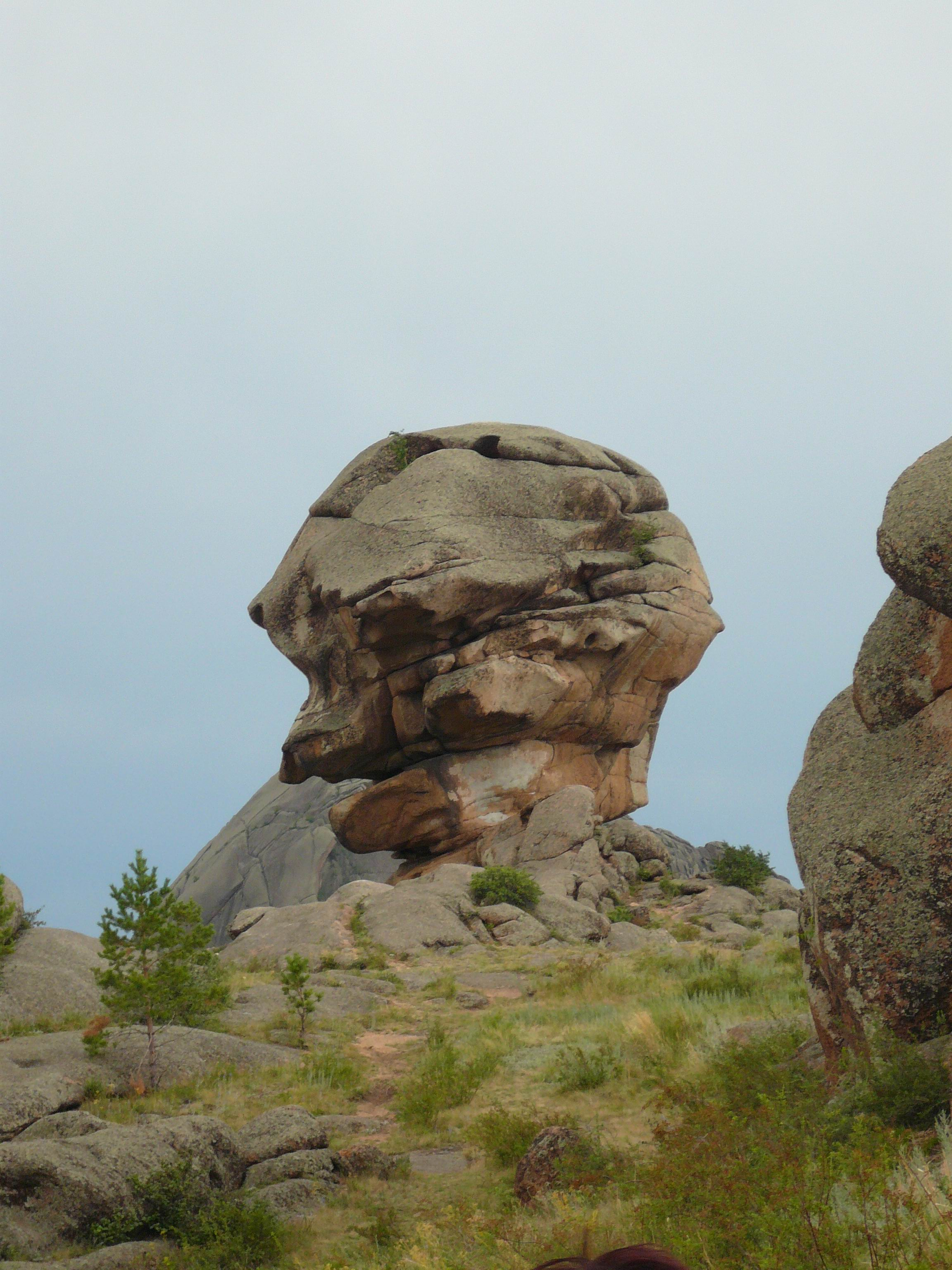 Rock resembling head of old woman (commonly known as "Baba Yaga")